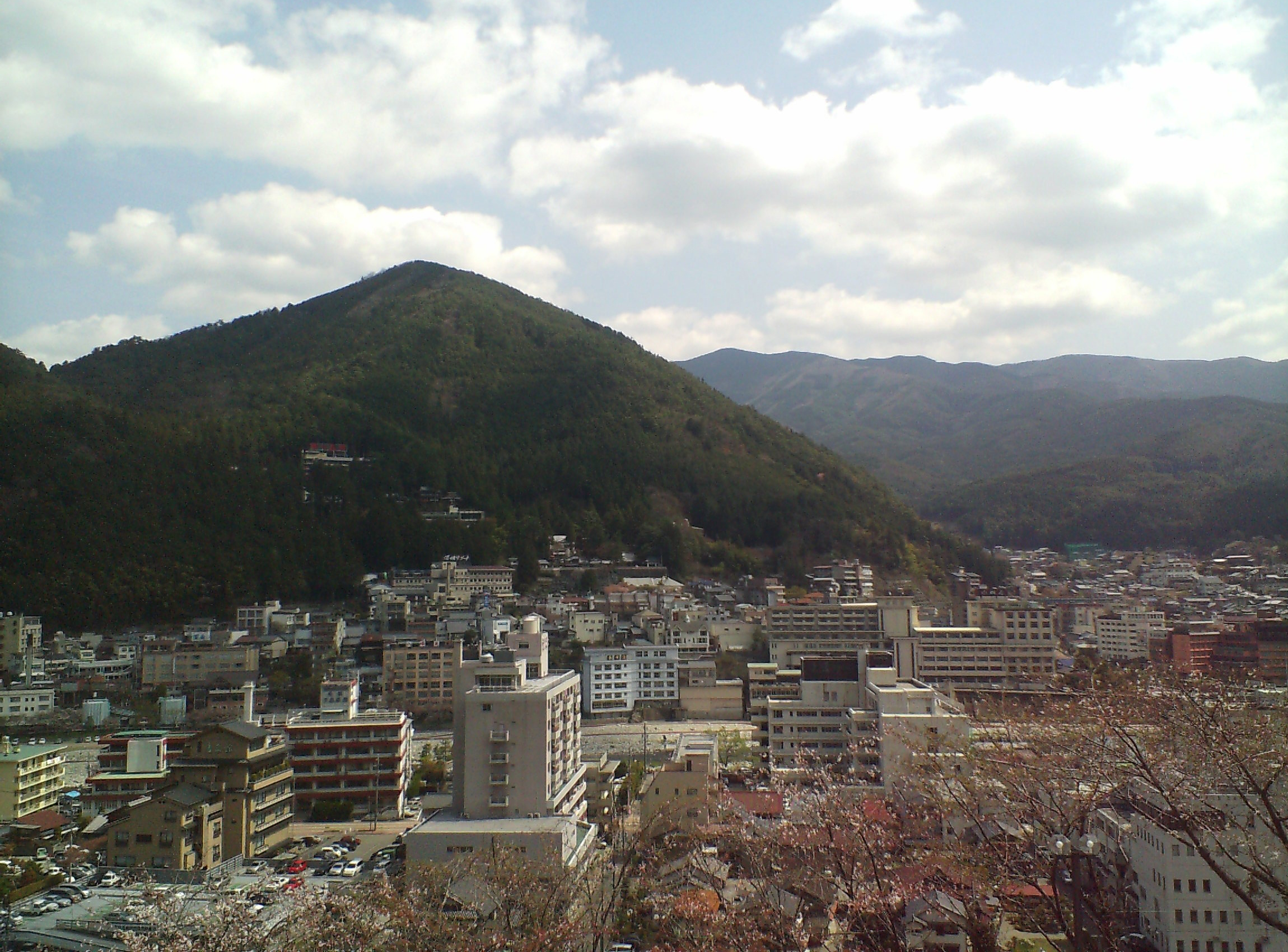 Gero Onsen (下呂温泉) is a hot spring town in Gifu prefecture, Japan.